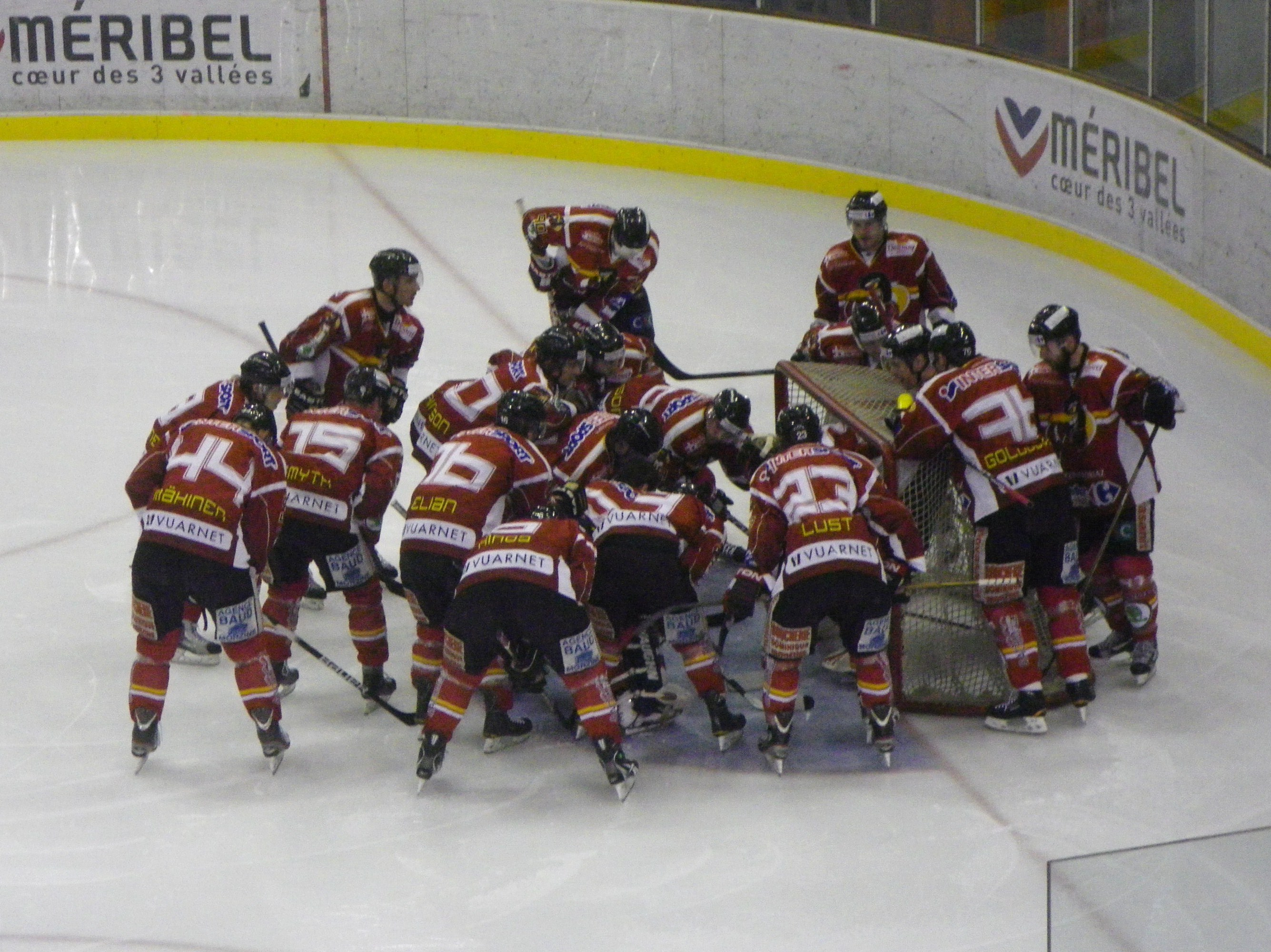 Pingouins de Morzine-Avoriaz, french ice hockey team